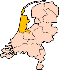 Map for localisation of the province of Noord-Holland in the Netherlands.